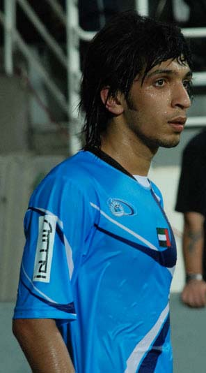 Amer Abdulrahman of the match Al-Jazira against Bani Yas In the first round of the UAE Football League on 6 november.